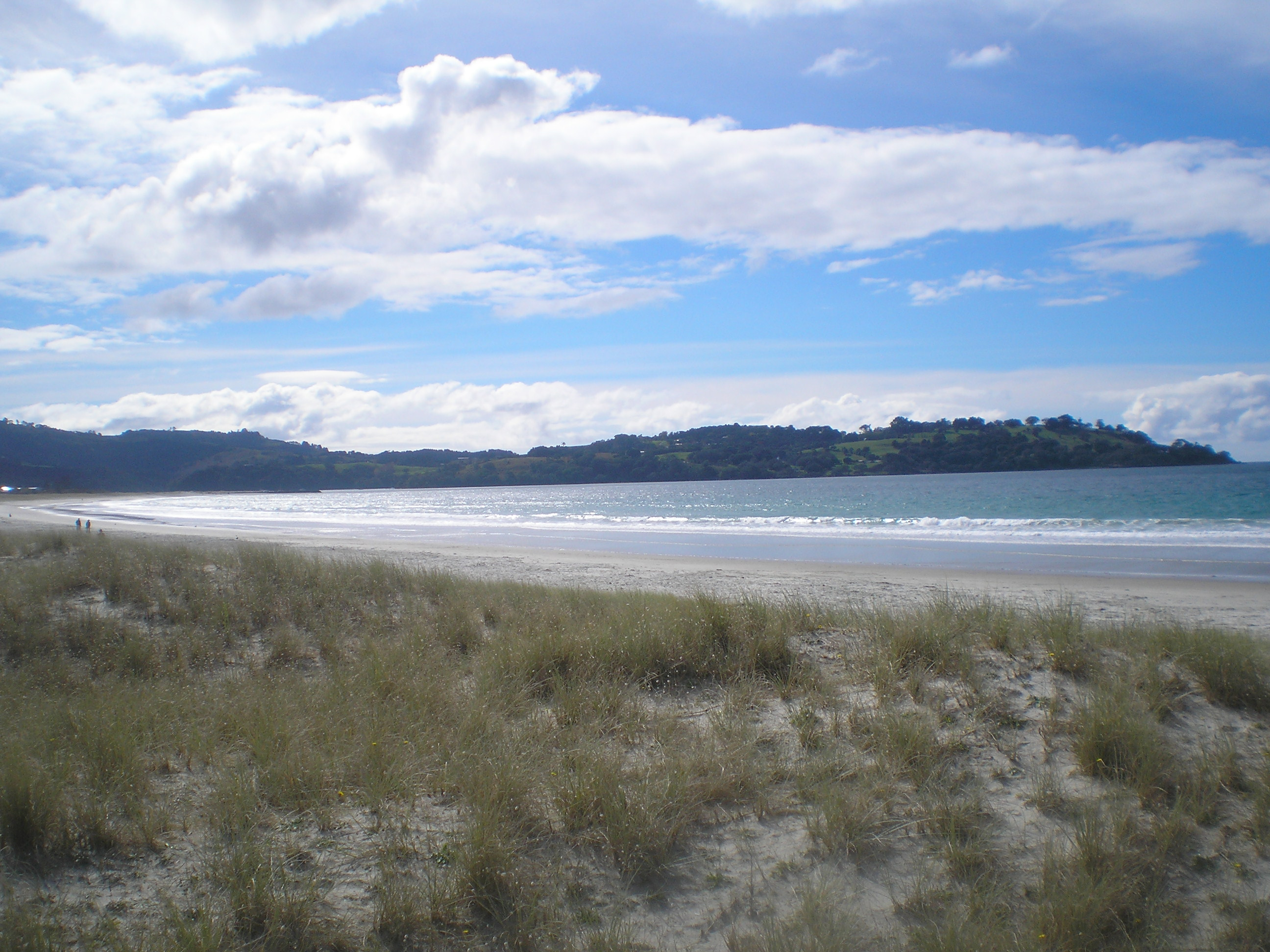 The photo of Omaha Beach front, New Zealand, taken by 2007